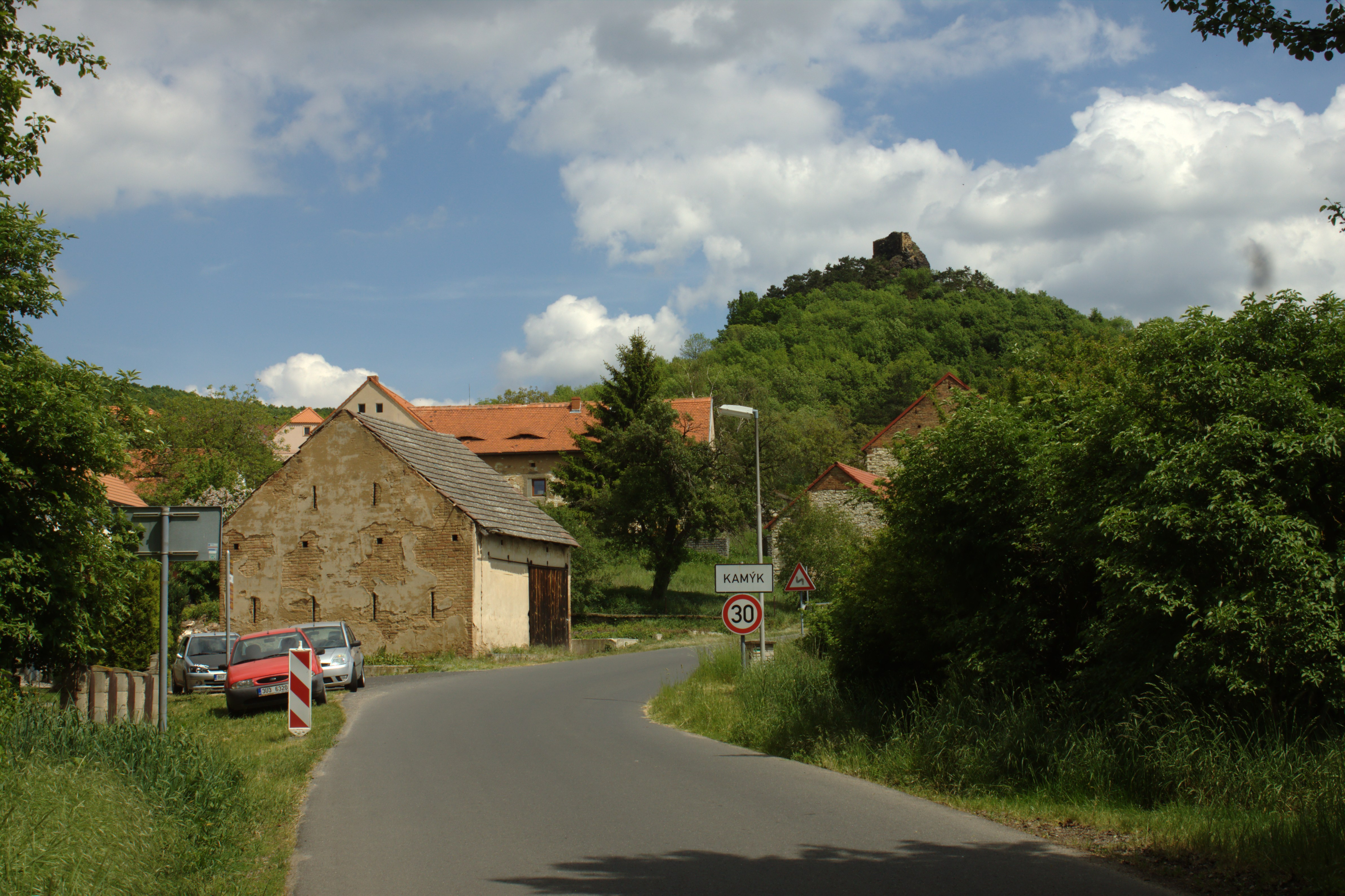 Southern edge of the village of Kamýk in Litoměřice District, CZ